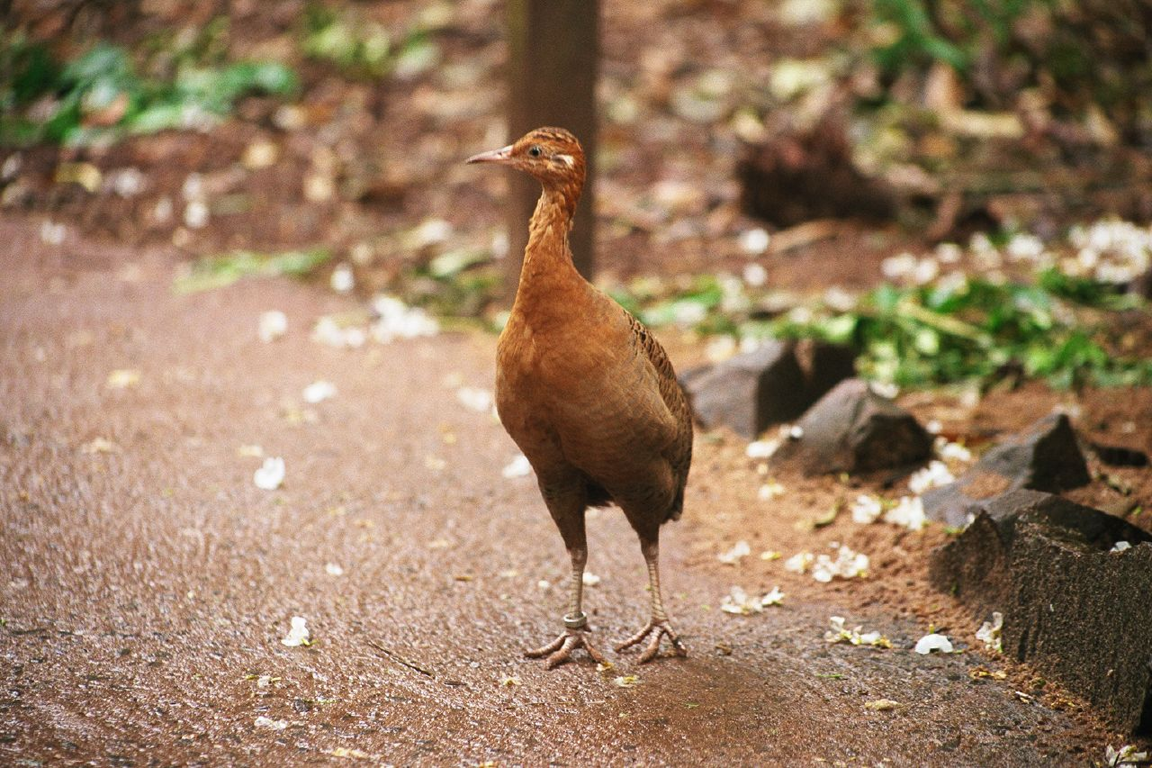 Red-winged Tinamou at Parque das Aves, Brazil.